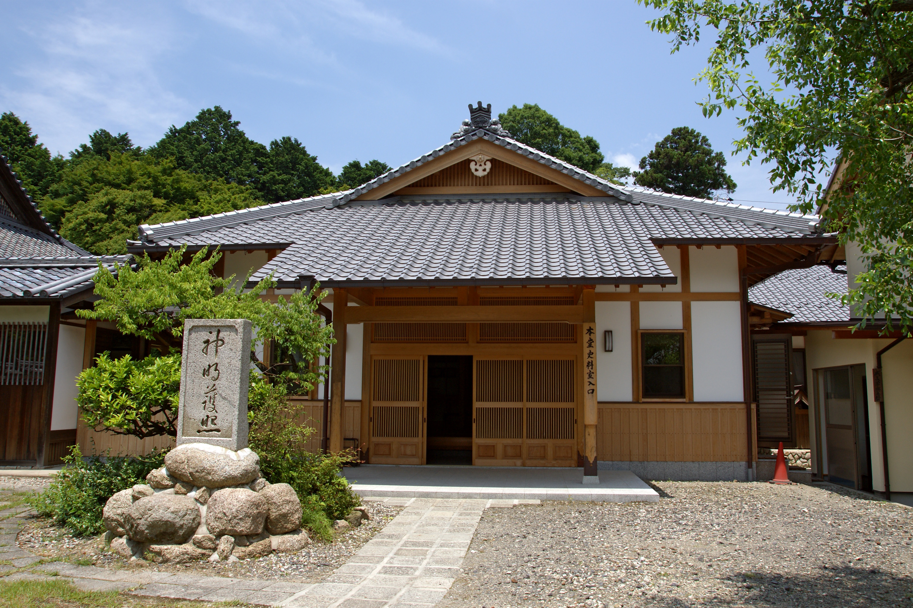 Hotokuji in Nara, Nara prefecture, Japan